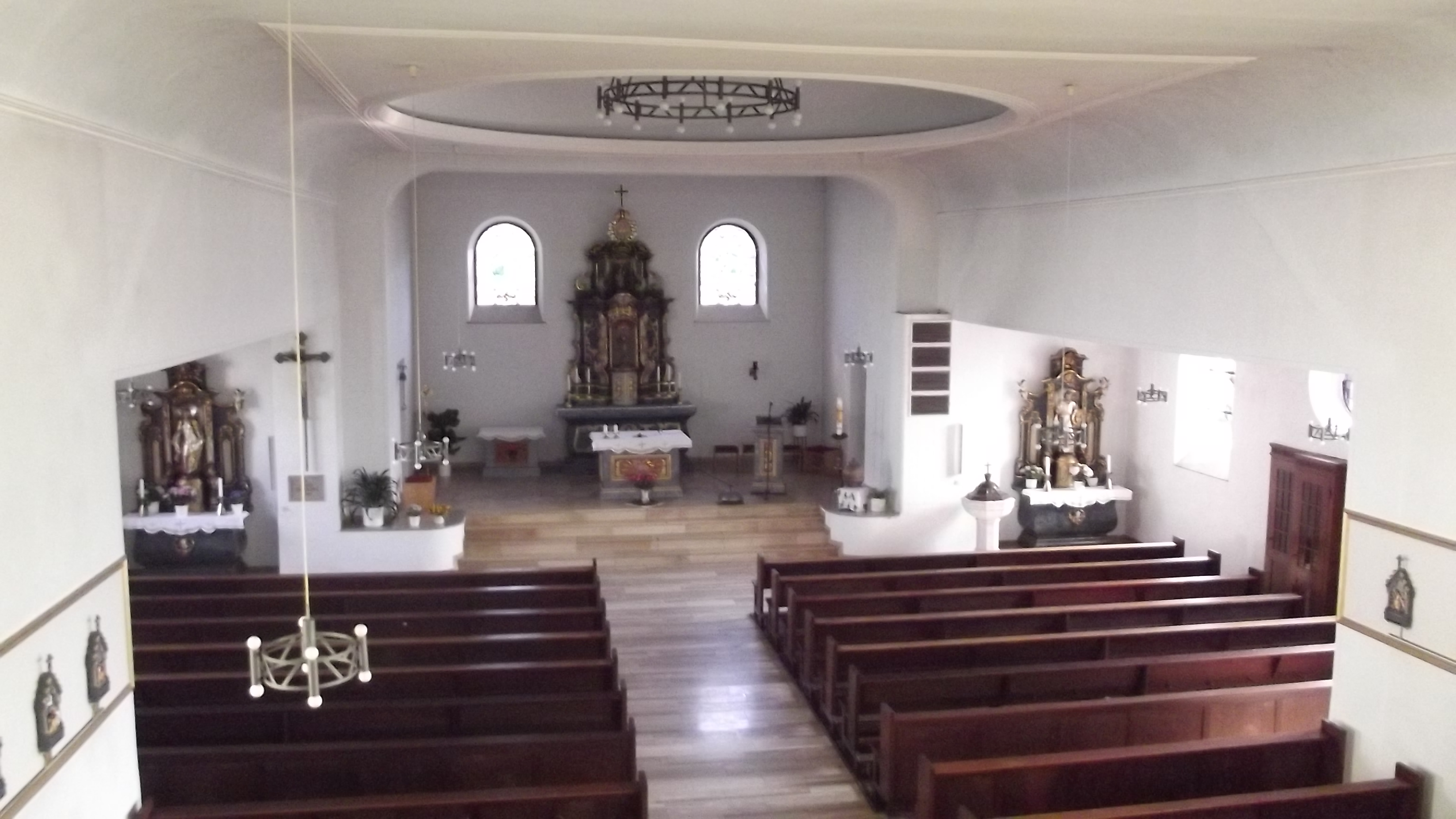 Interior of the roman catholic church in Schwarzenbach (nearby Nonnweiler), Saarland